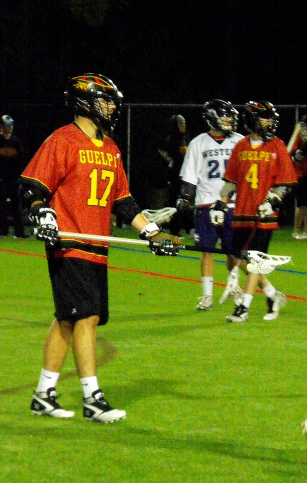 These are images of CUFLA action during the 2014 season and are taken by Devan Mighton.